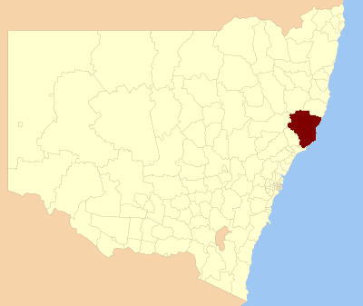 Locator map of Mid-Coast Council in New South Wales